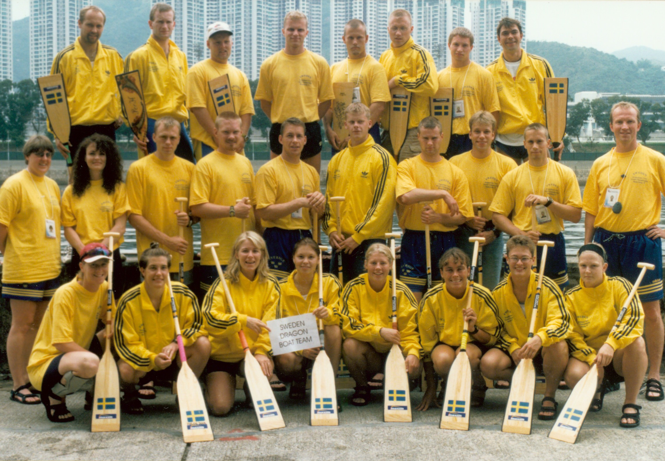 (Swedish National Team at the IDBF World Dragon Boat Championships in Hong Kong 1997)